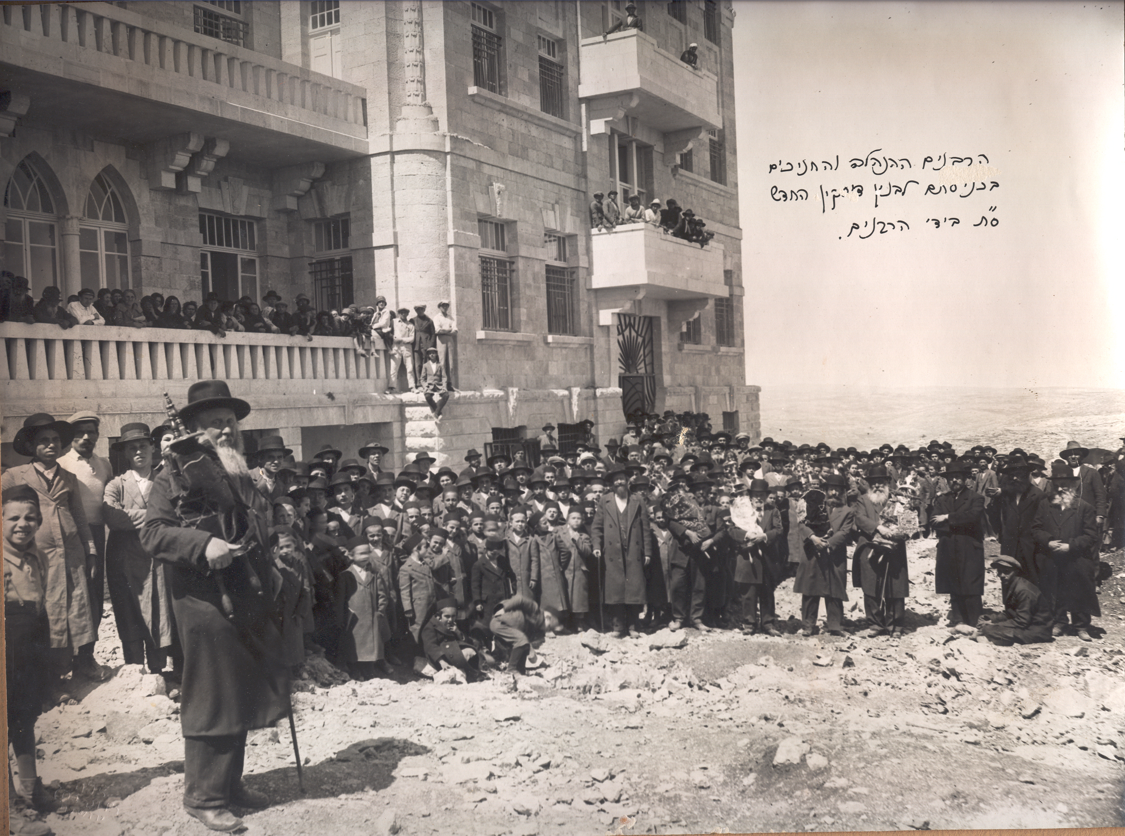 Dedication ceremony for the Diskin Orphanage, showing rabbis and students, 1927